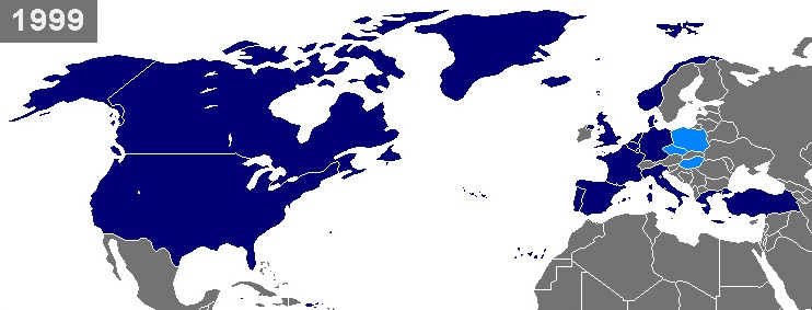 Map of the expansion of the intergovernmental military alliance NATO by Poland, the Czech Republic, and Hungary on March 12, 1999.